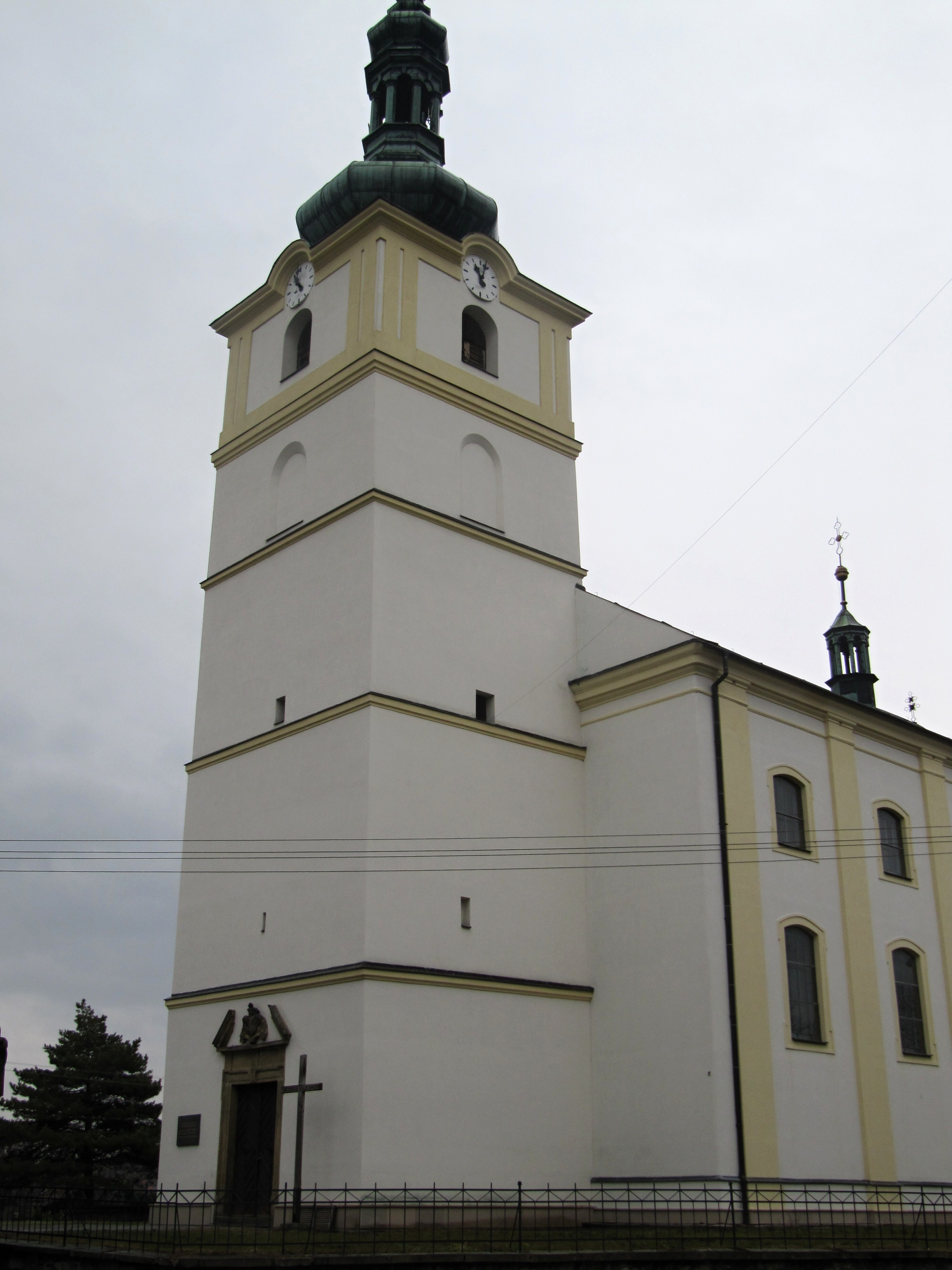 Velký Týnec, Olomouc District, Czech Republic. Church of the Assumption of the Virgin Mary.